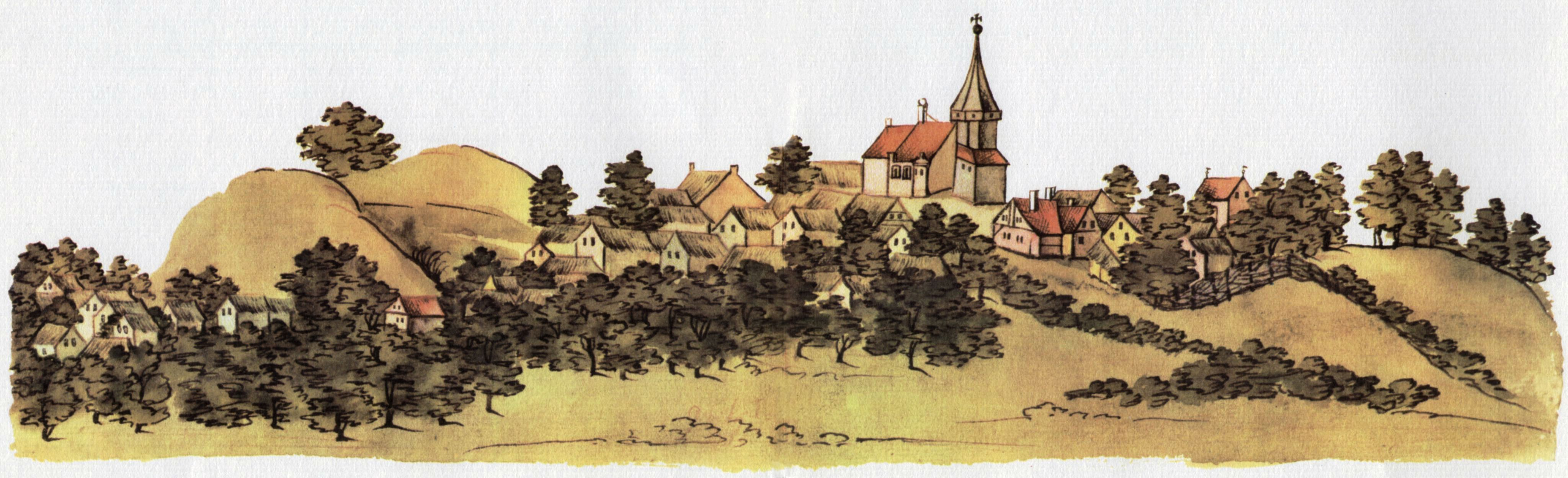 Cityview of Gützkow from the "Stralsunder Bilderhandschrift"